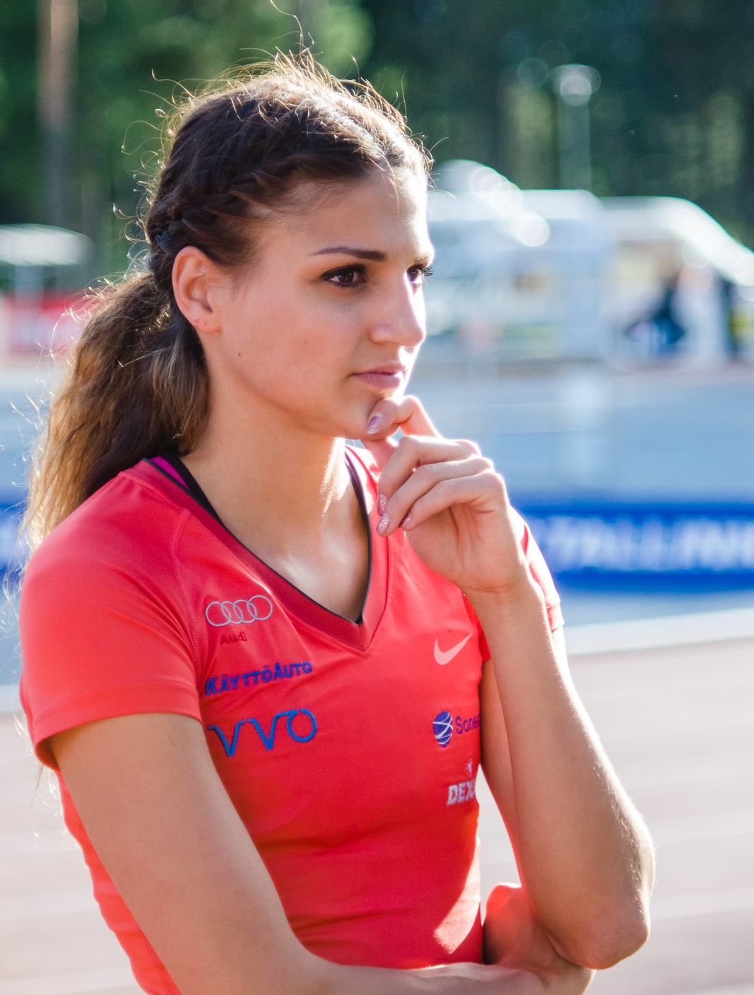 Nooralotta Neziri at Mondo Areena at Lapinlahti (21 July 2013)